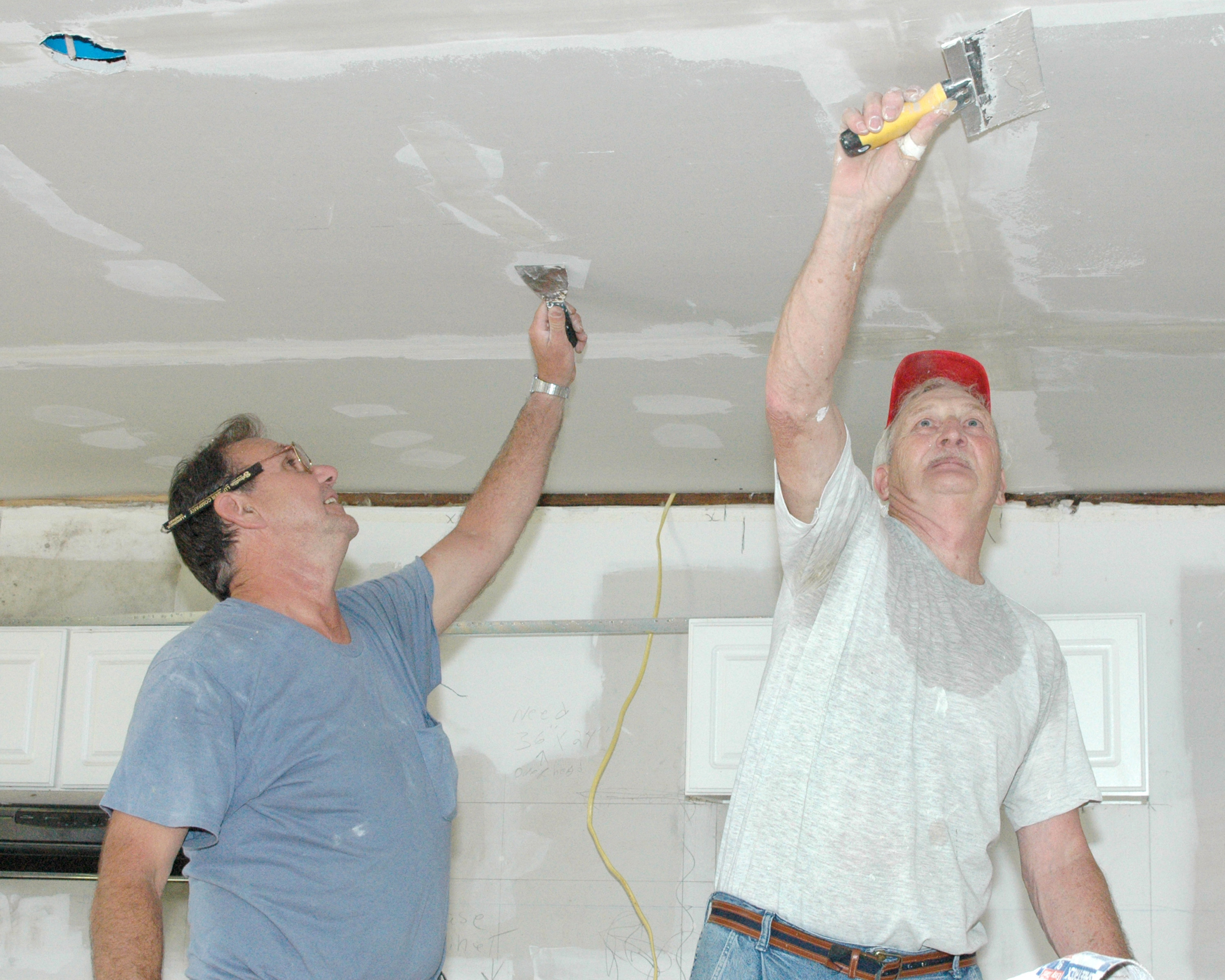 Lucedale, Miss., 25 May, 2006 -- Church of the Brethern volunteers, Bill Neville (left) and Bob Sunday, complete sheetrock work on a home damaged by Hurricane Katrina. Both men traveled from Middle Pennsylvania to help with the rebuilding efforts. Michelle Miller-Freeck/FEMA.